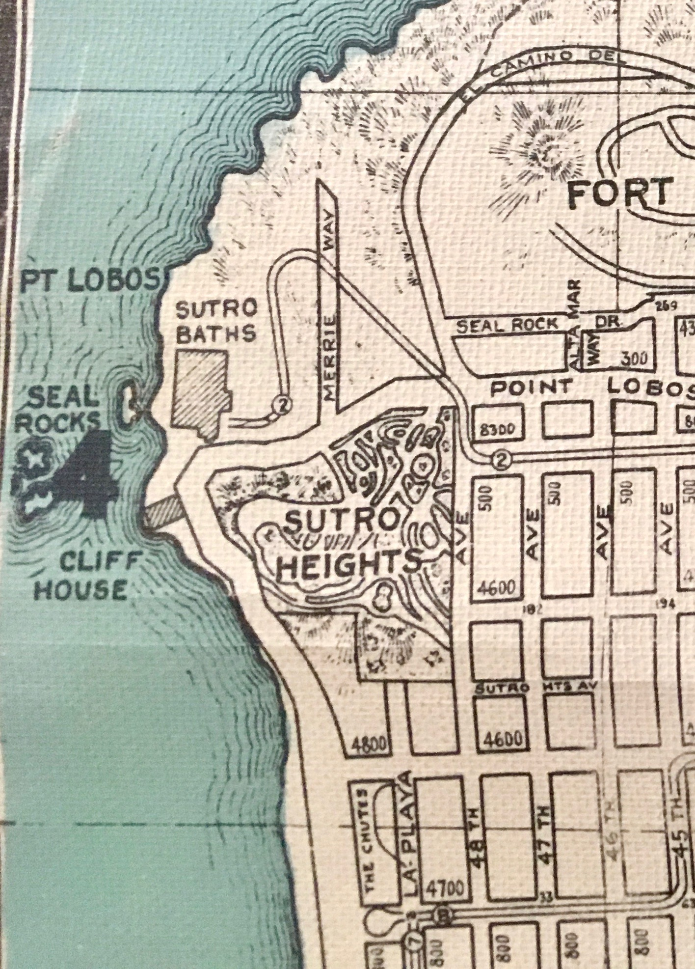 Street map of 1937 of the Sutro estate and vicinity